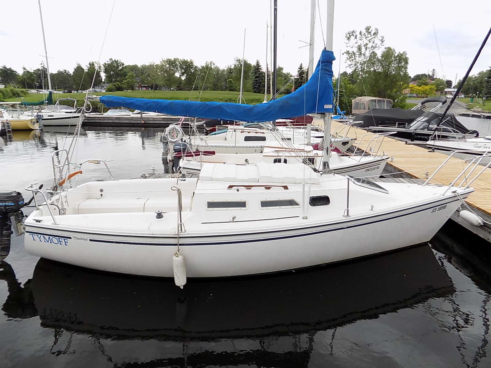 A Starwind 223 sailboat named Tymoff.